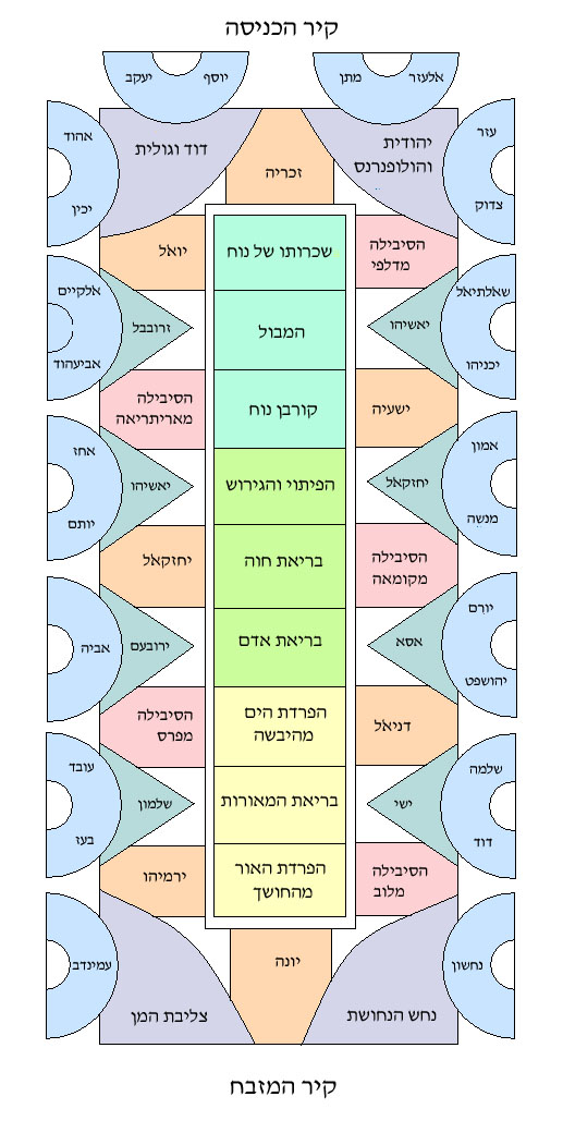 TTaylor. Diagram of Sistine Chapel ceiling giving location of various subjects